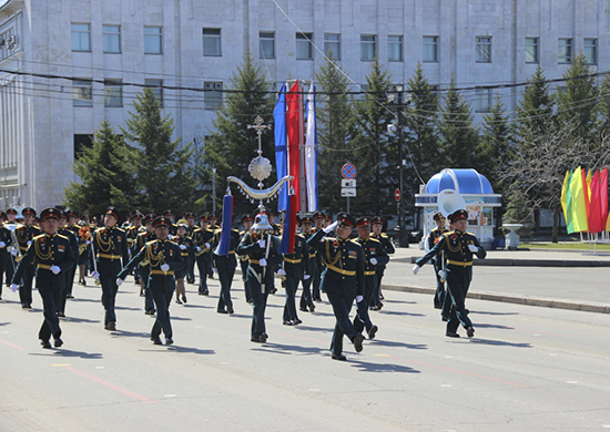 The Military Staff Band of the Eastern Military District in Khabarosk.